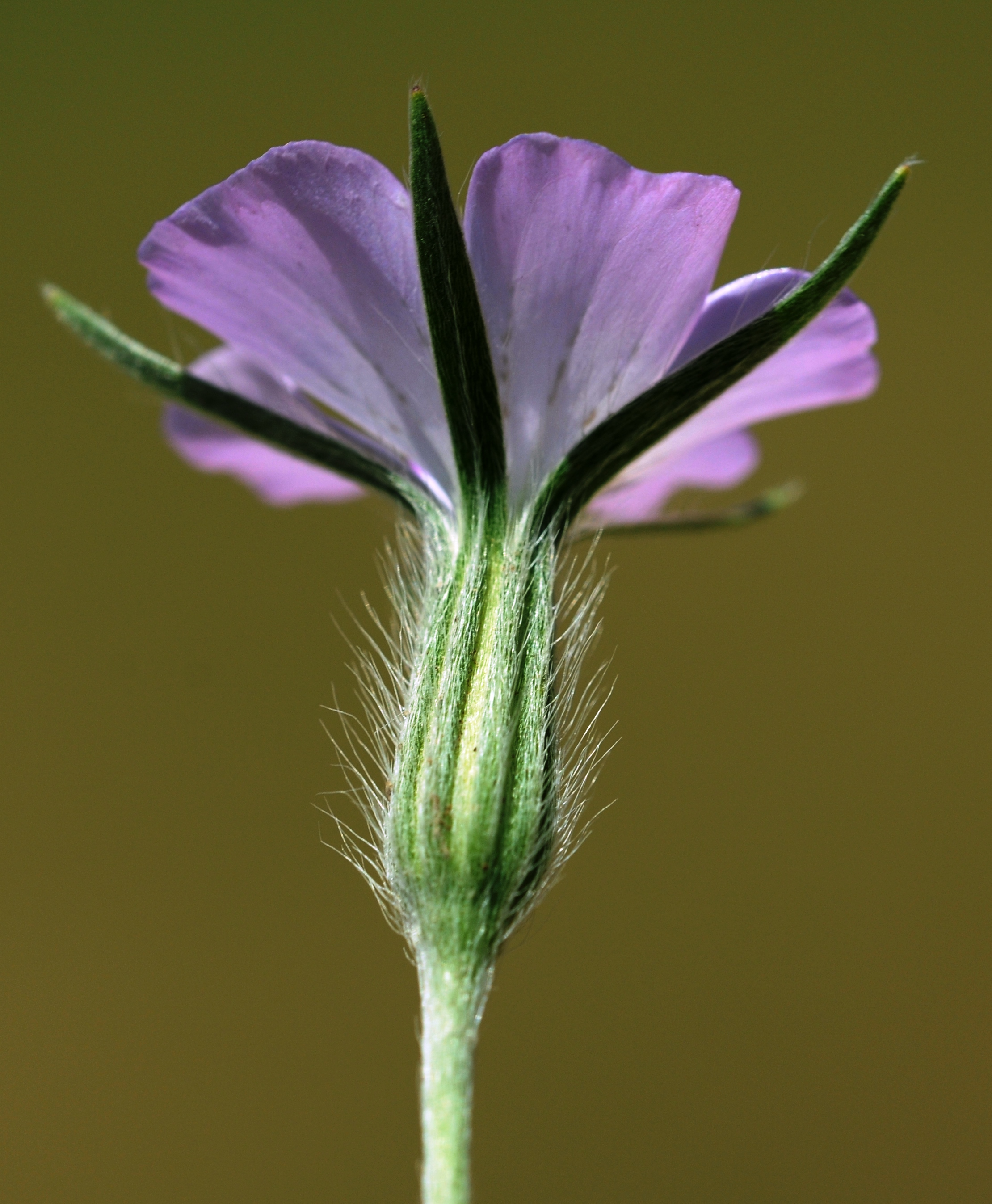 Flowers of Common Corncockle (Agrostemma githago L.). near Dallikavak Pass, Aziziye, Erzurum - Turkey. 2020 m.